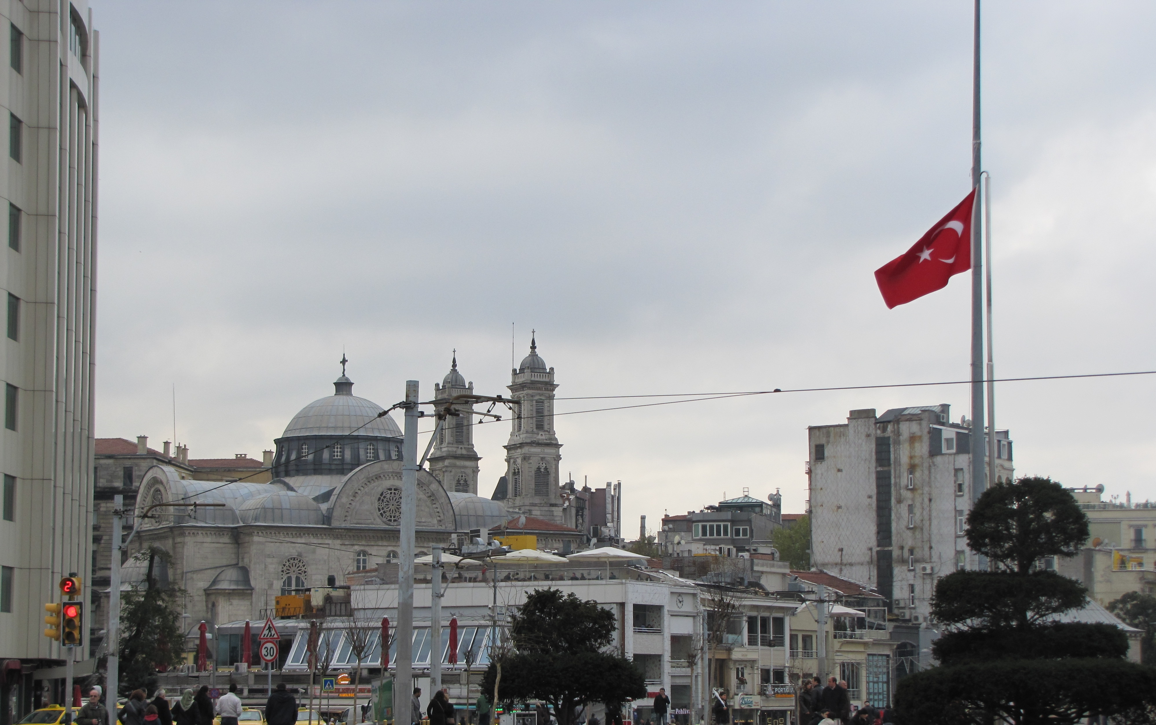 Taksim Square, IstanbulTürkçe: Taksim Meydanı, İstanbul